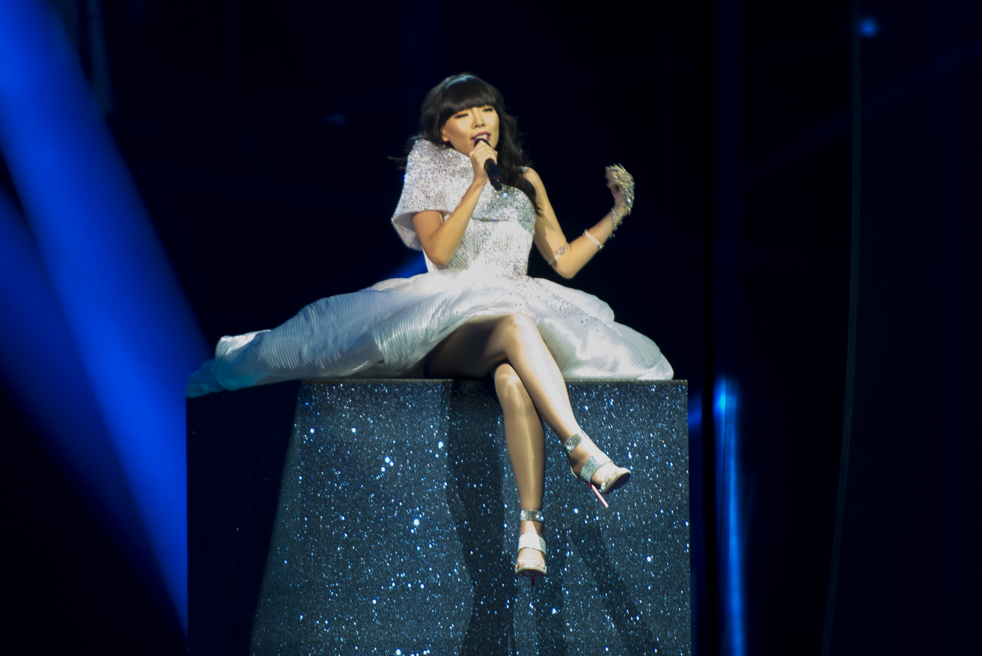 Dami Im representing Australia with the song "Sound of Silence" during a rehearsal before the second semi final of the Eurovision Song Contest 2016 in Stockholm. (Help translate this text)